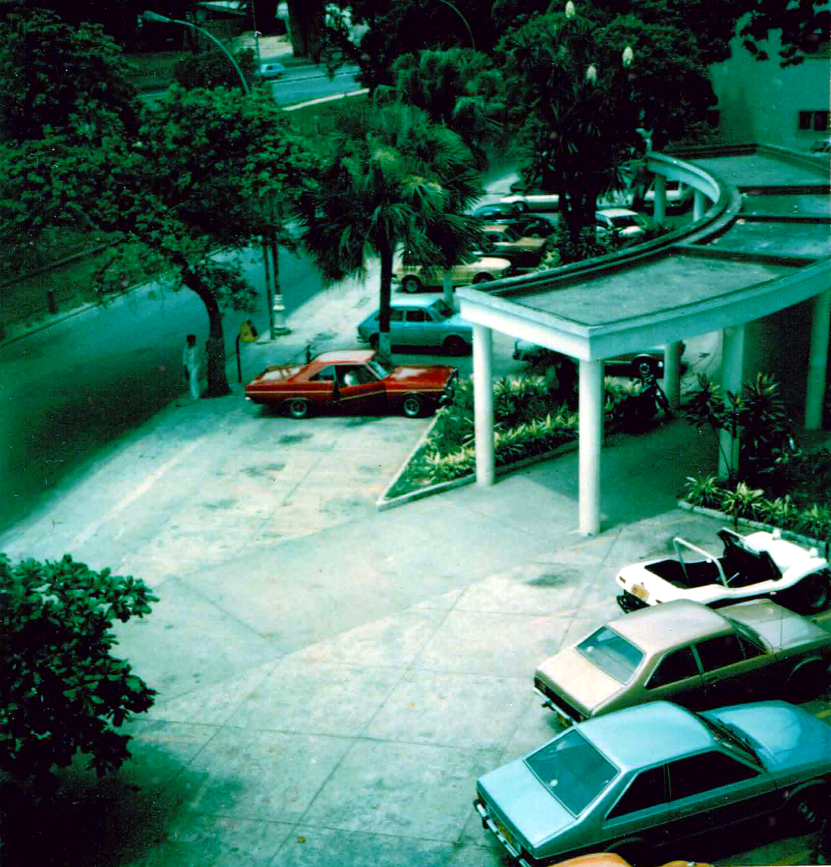 Taken with a Polaroid Instant Camera in 1979 and scanned at 600dpi